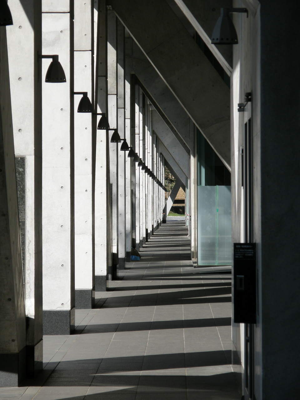 Tokyo University Komaba Research Campus, Tokyo, Japan 2008/03/15